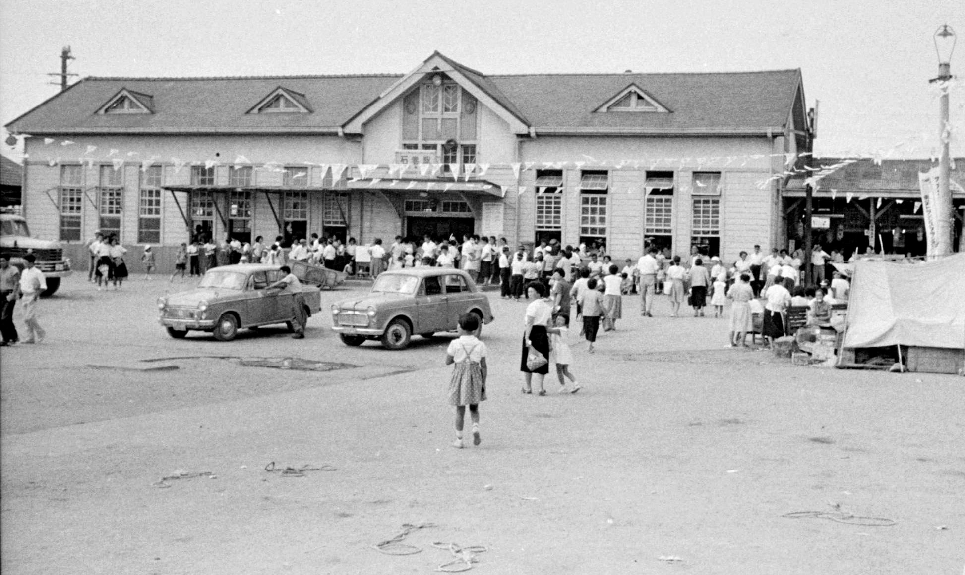 Ishinomaki Station at the Ishinomaki Kawabiraki Festival in 1964